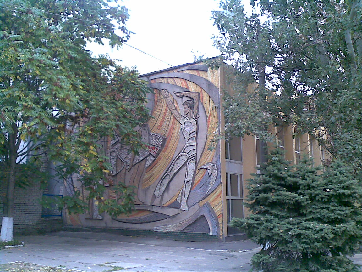 Sport school01